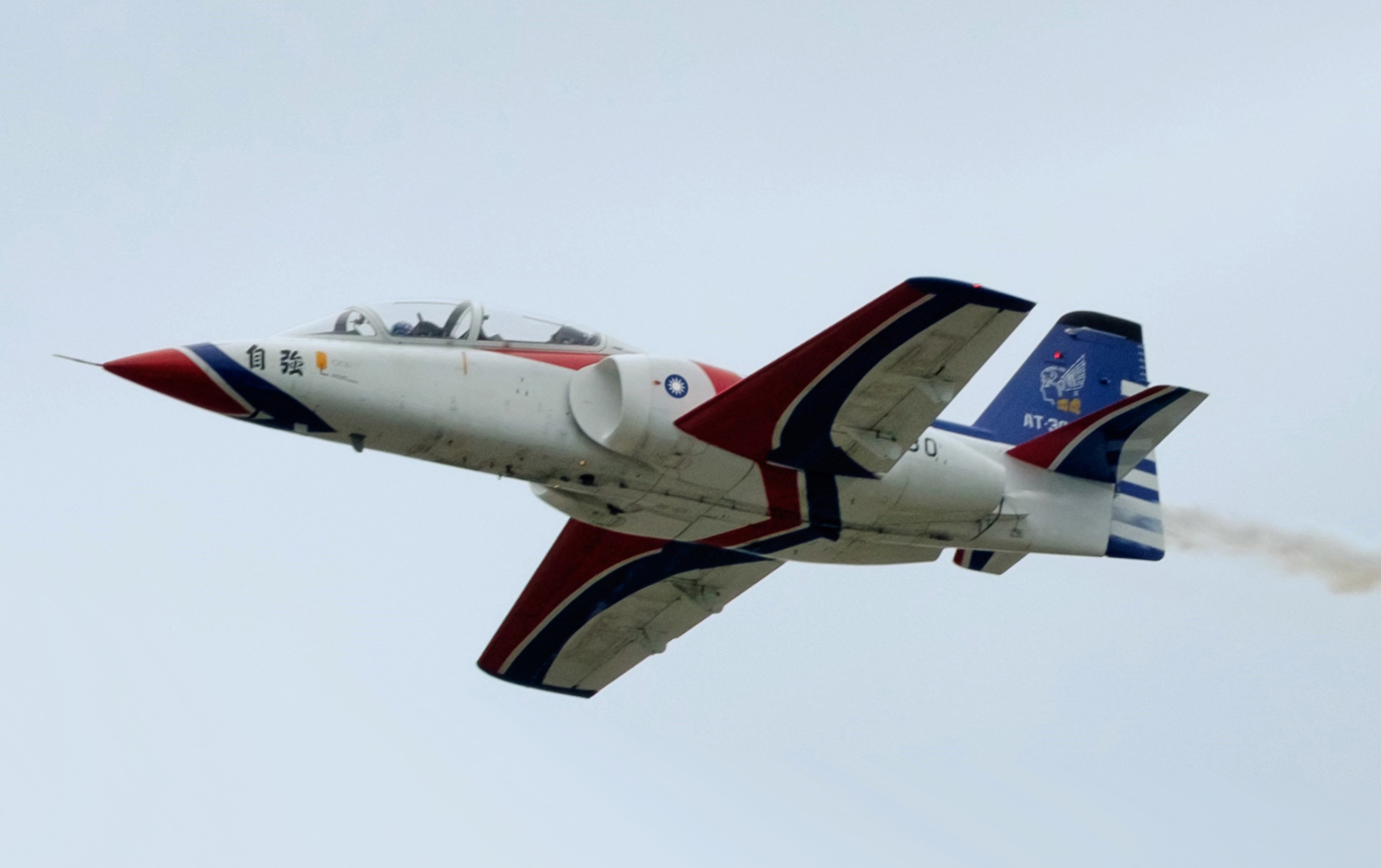 Thundertigers AT-3 in 2016